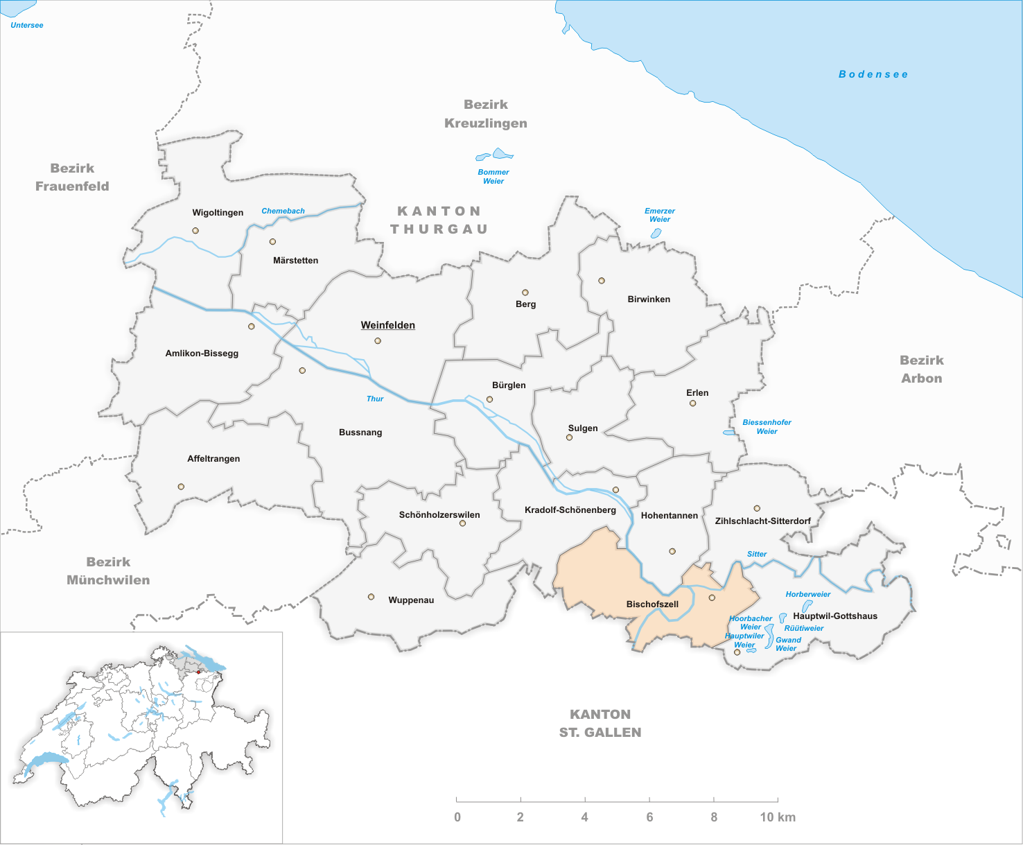 Municipality Bischofszell